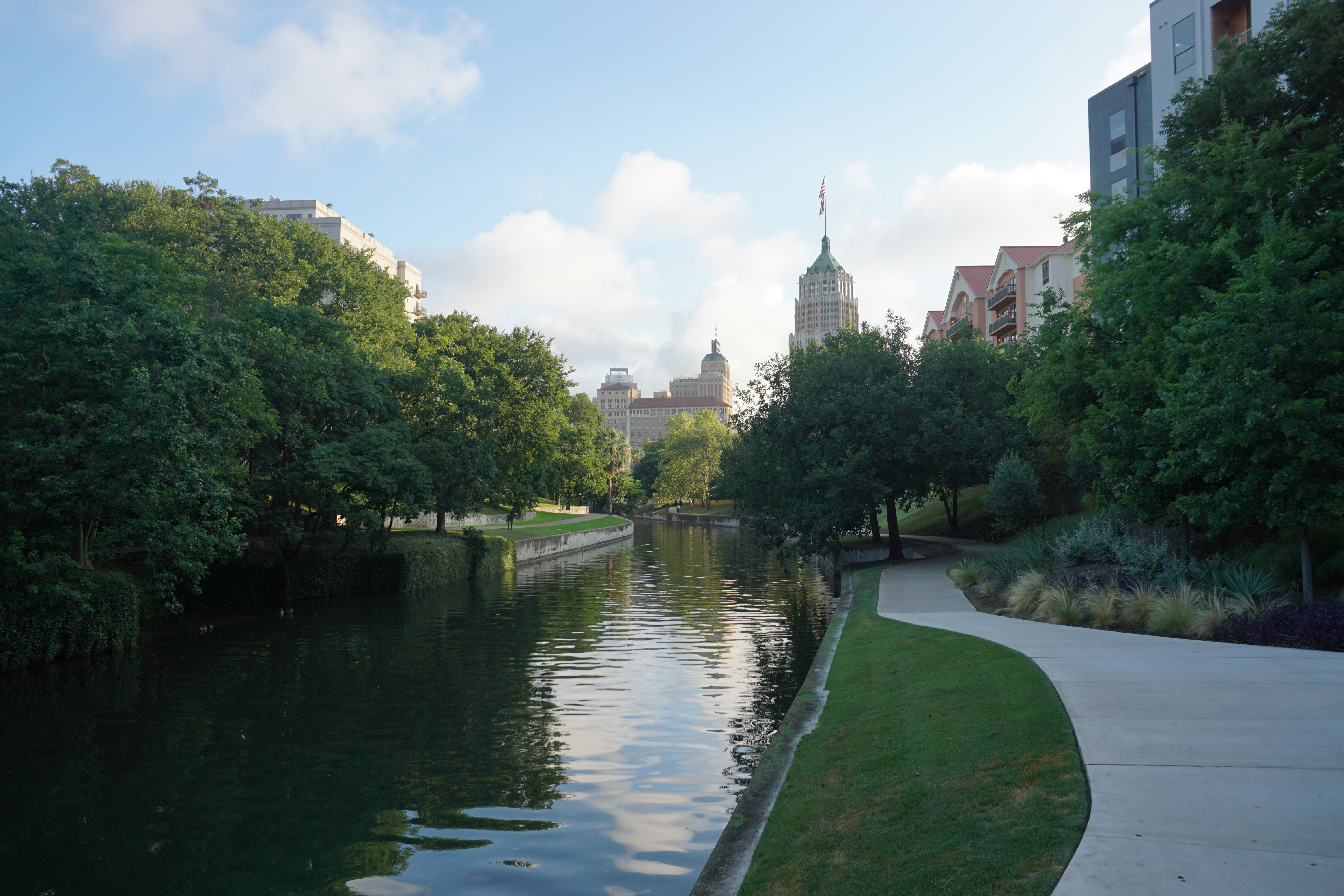 The San Antonio River Walk in San Antonio, Texas (United States).